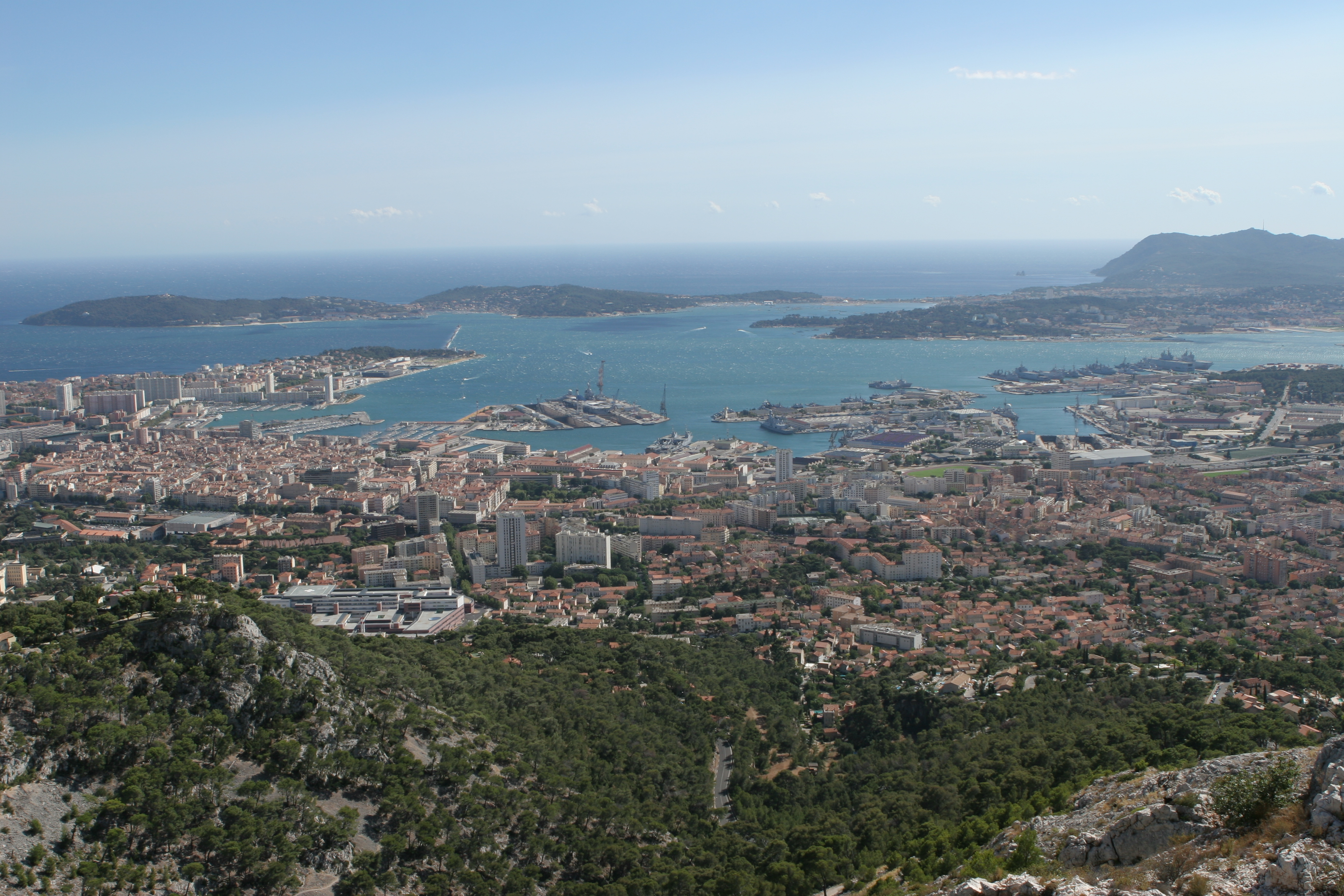 Toulon roadstead and city seen from the mont Faron